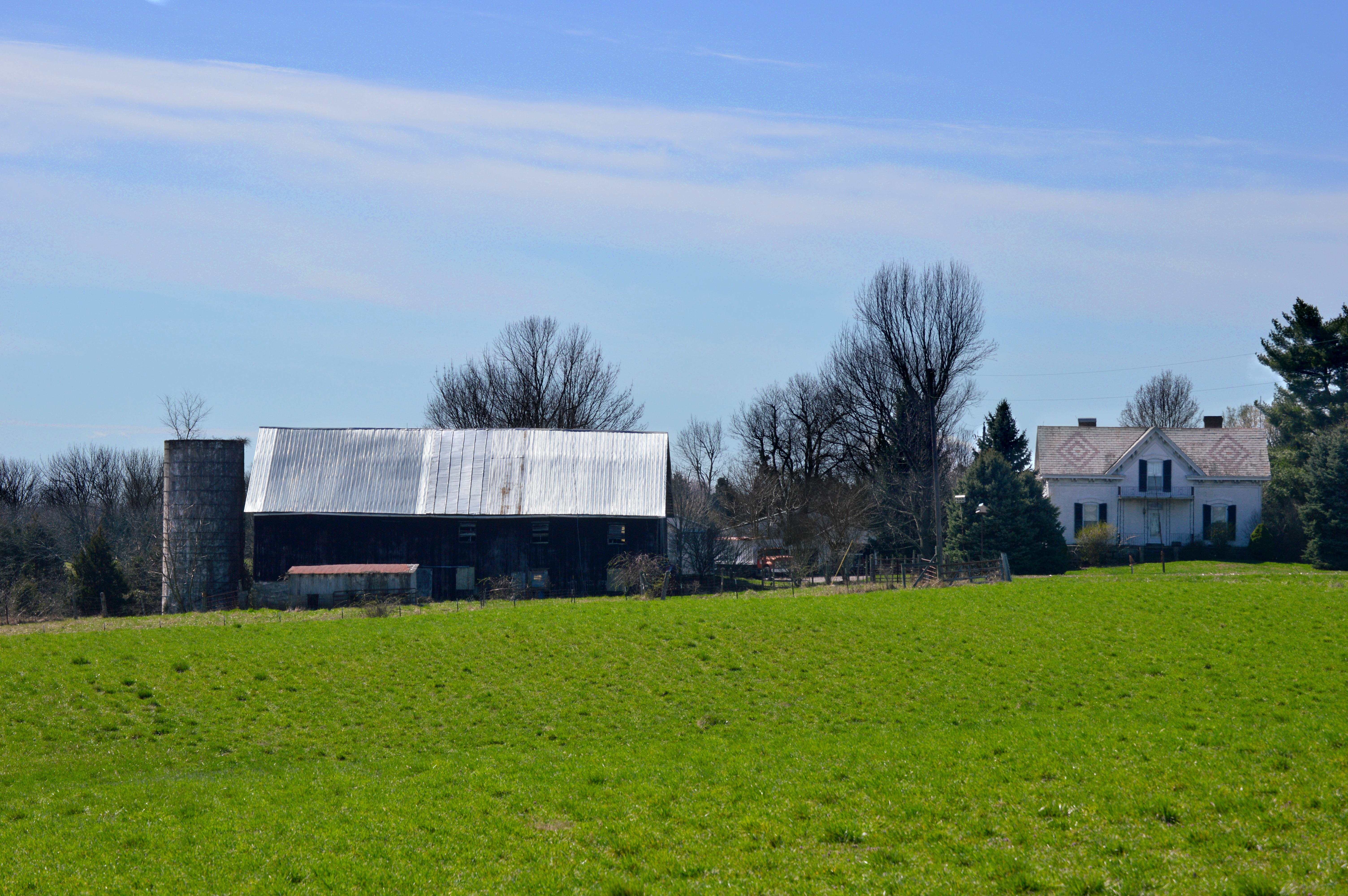 Barn and farmhouse at the Lemuel Allen Farm, located at 3768 E. Pleasant Ridge Road east of Madison in Madison Township, Jefferson County, Indiana, United States. Built in 1877, the farmstead is listed on the National Register of Historic Places.